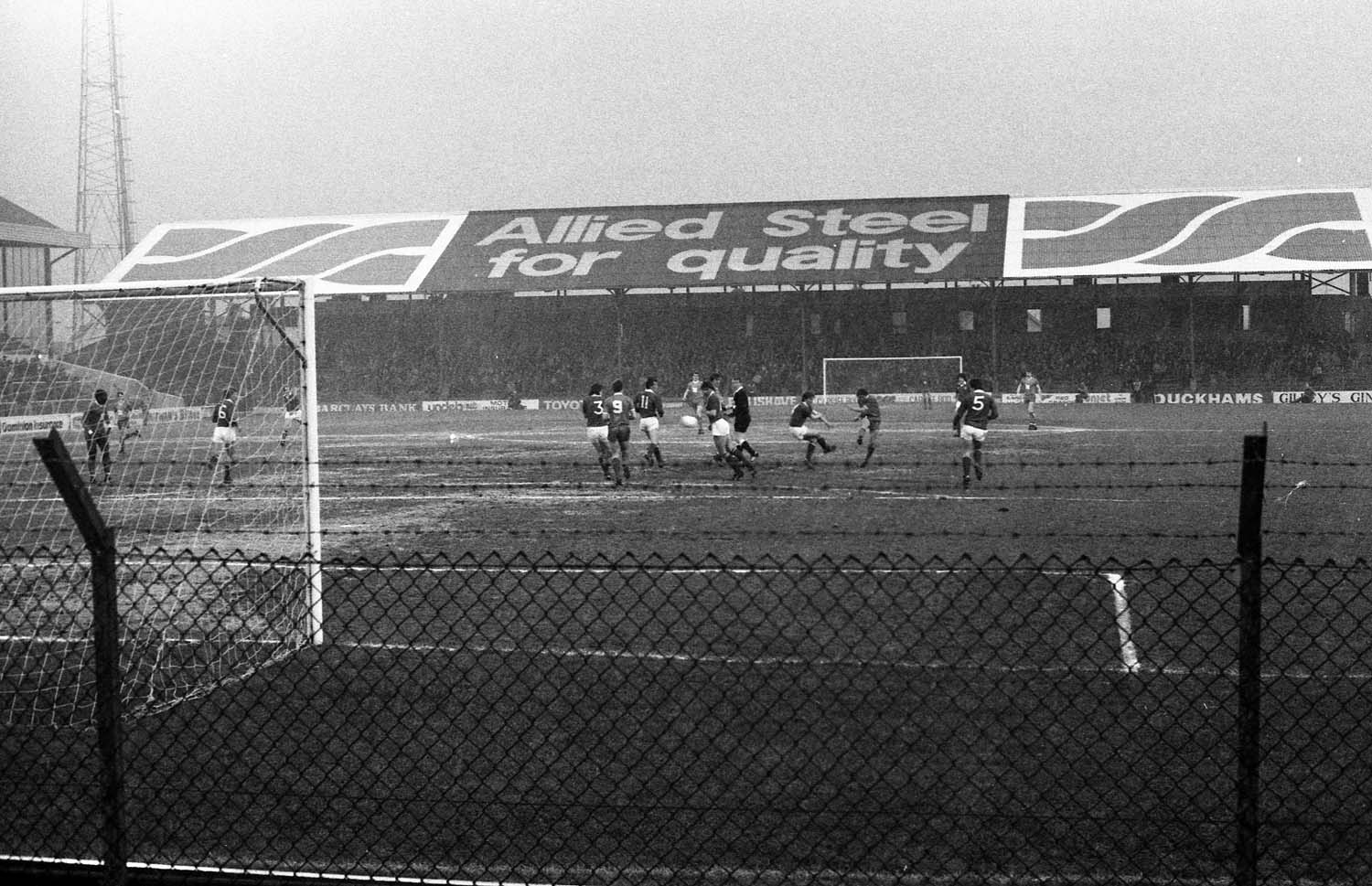 The Canton End at Ninian Park, Cardiff, Wales